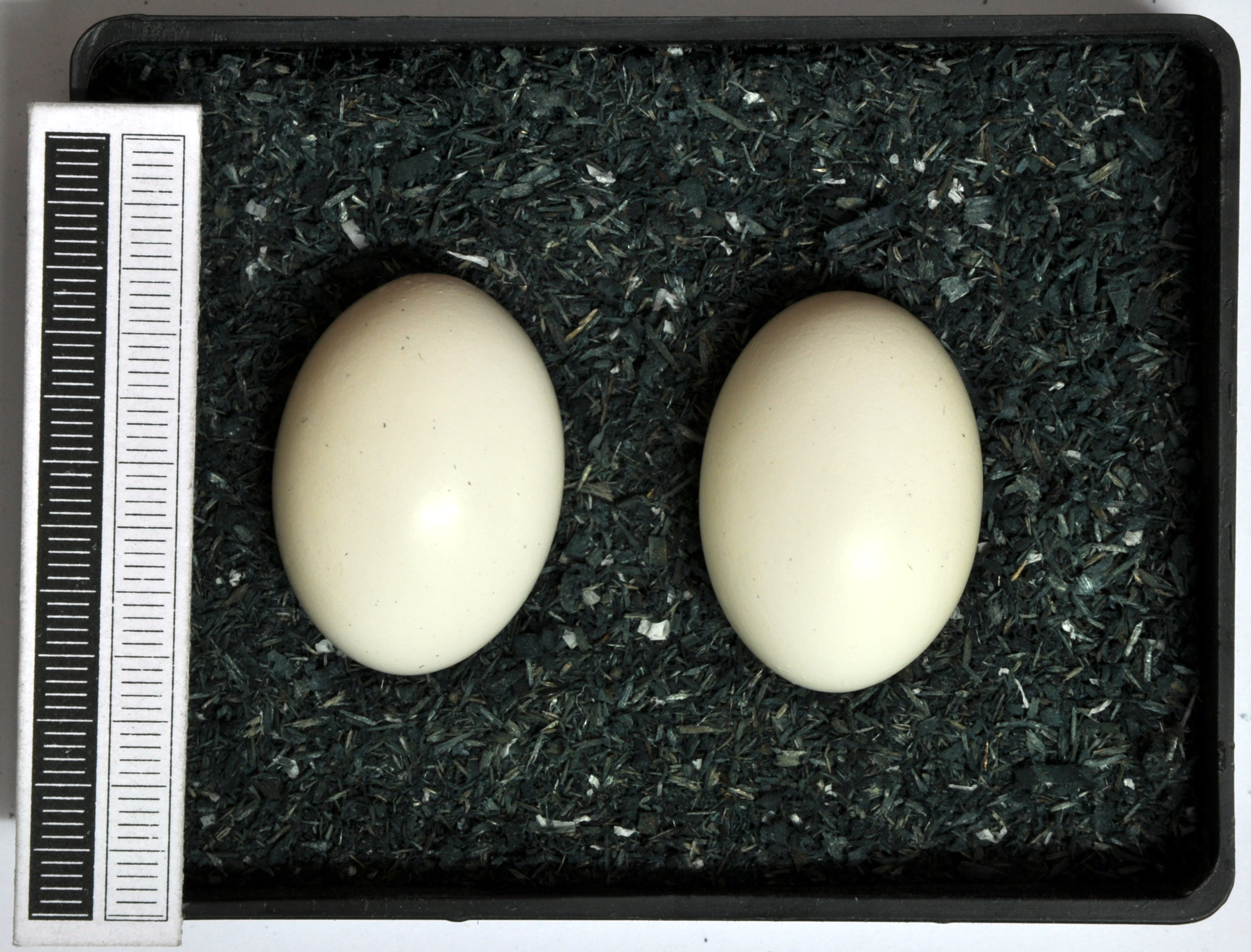 Eurasian collared dove Streptopelia decaocto, egg, Coll. Museum Wiesbaden, Origin: Planegg, Bavaria, 12.03.1972, leg. W. Abelmann